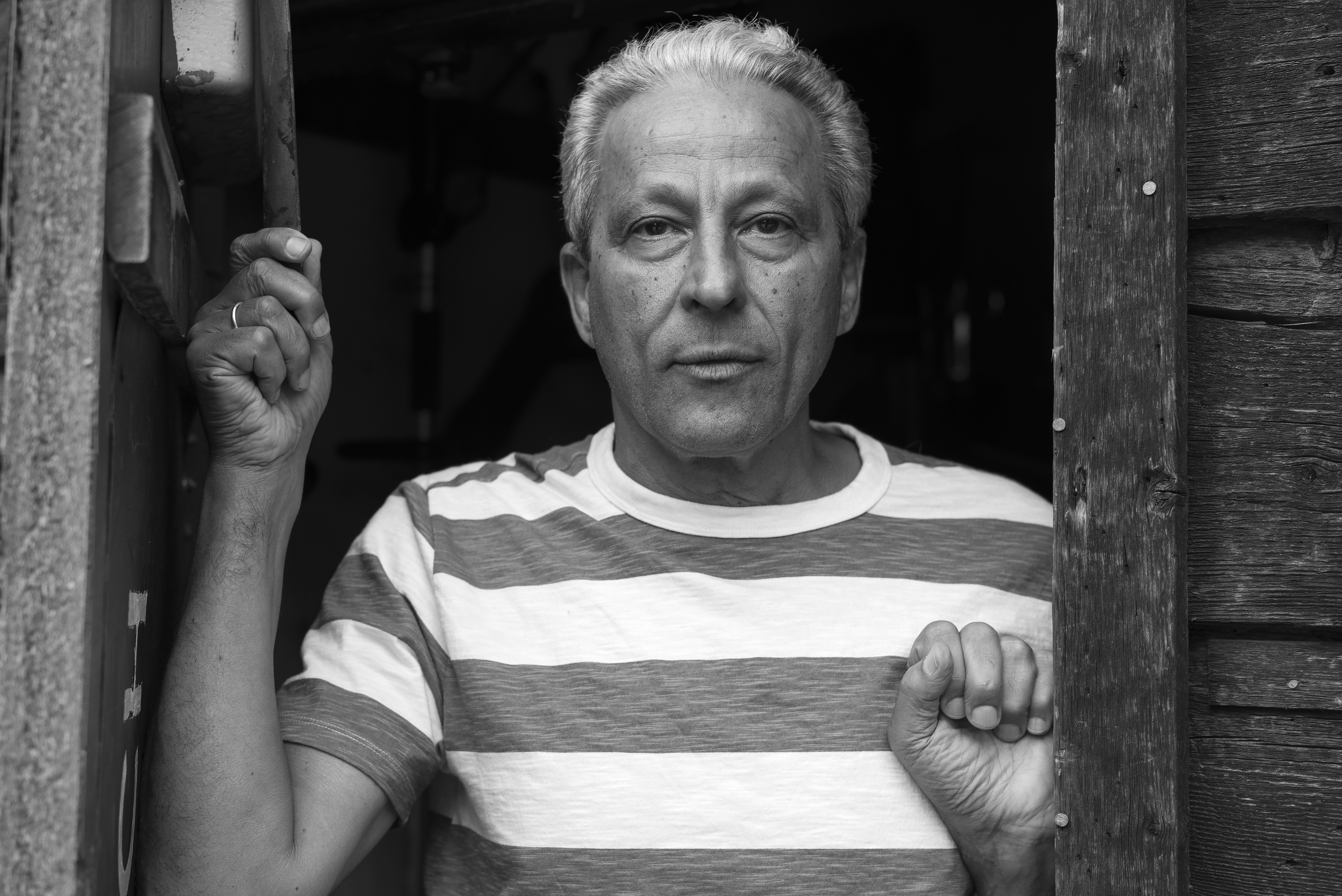 Ed Kashi at Anderson Ranch in 2019 by Christopher Michel.